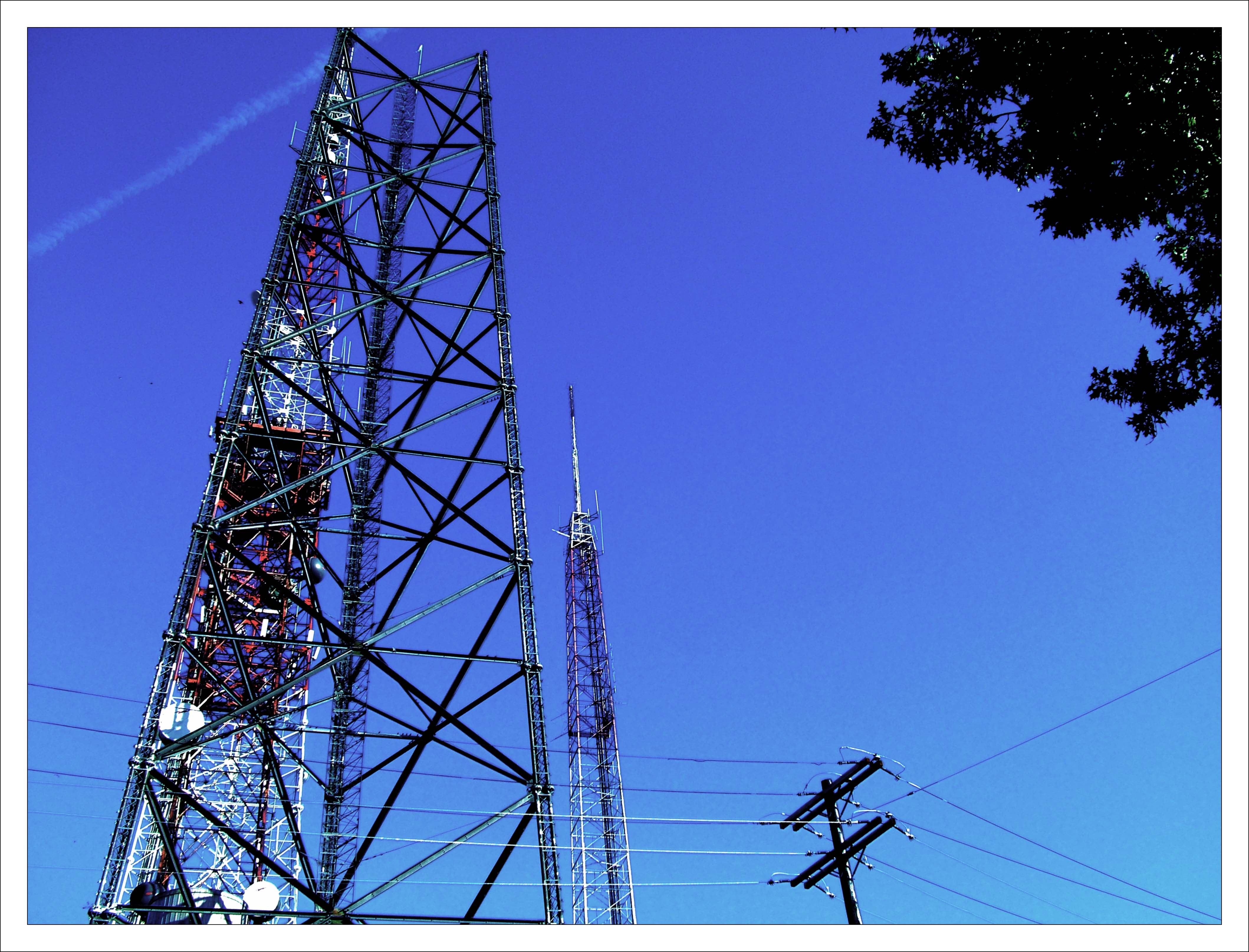 Not In My Back Yard (NIMBY) The pictures was taken in Washington, DC, the US Capitol. There is a neighborhood known as Tenleytown, which is near American University. This tower was not finished as it was considered to be too ugly for such an upscale neighborhood in N.W. They waited until it was half built, and then got some sort of injunction. Now the company that built is is supposed to tear it down.